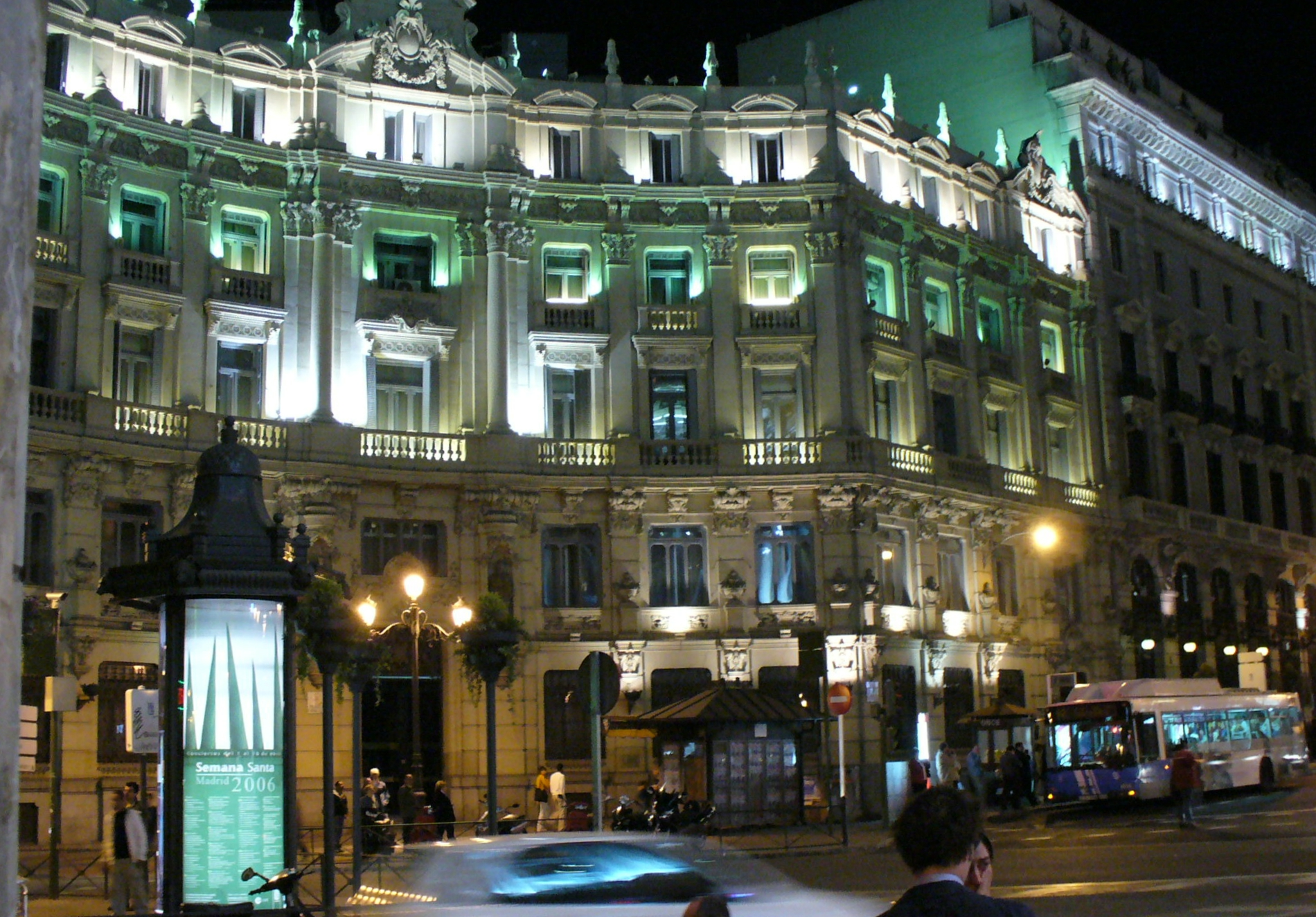 Night view of the former Banco Hispano Americano (now Santander) building at the Plaza de Canalejas (square) in Madrid (Spain). Projected in 1902 by Eduardo de Adaro Magro and built from 1902 to 1905.